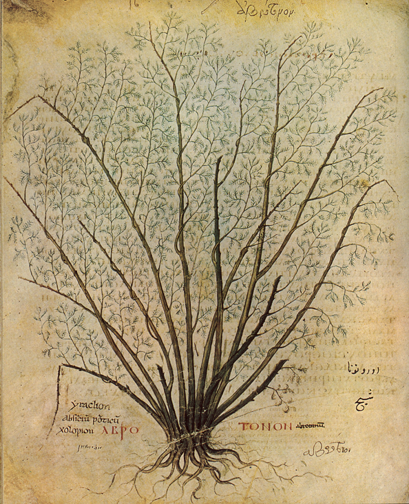 abrotonon folio 23v